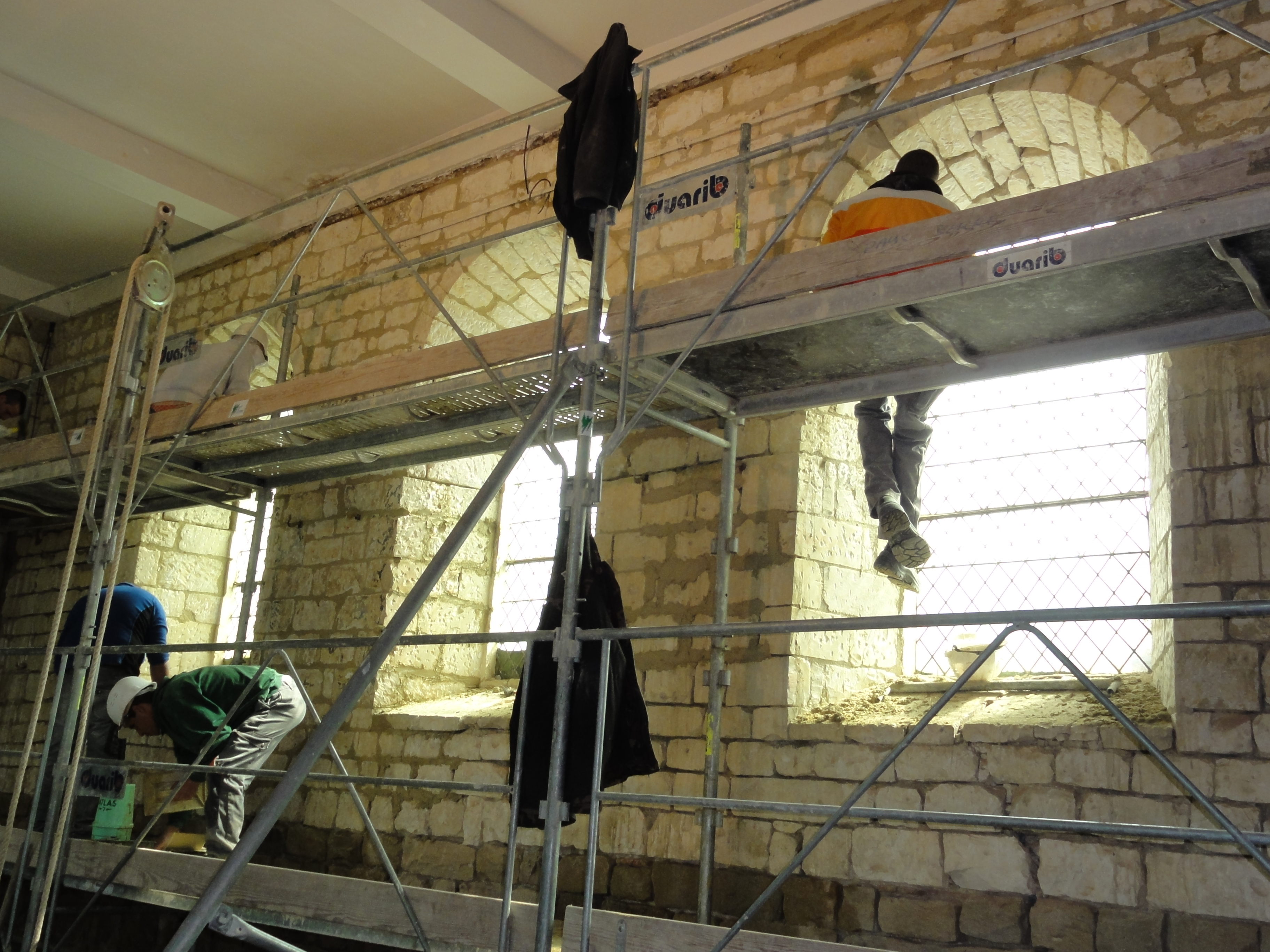 Mesbrecourt-Richecourt (Aisne) église Sainte-Benoîte, travaux de restauration 2015